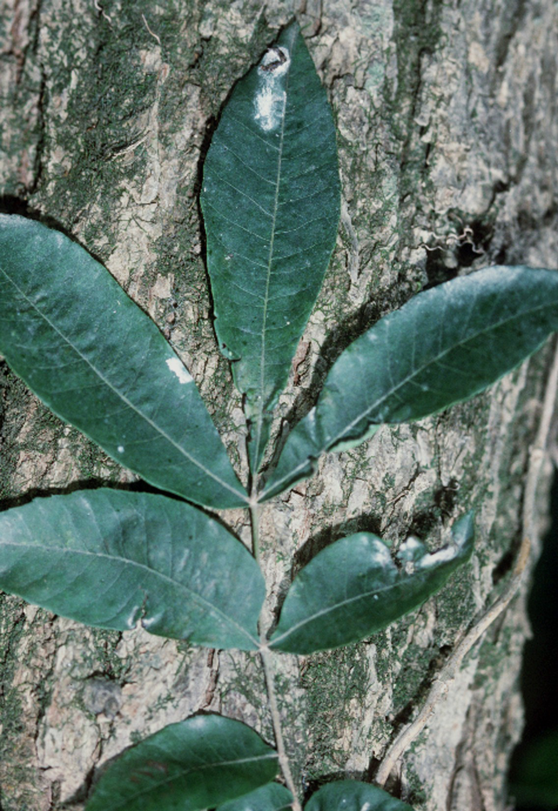 Carya aquatica leaf and bark